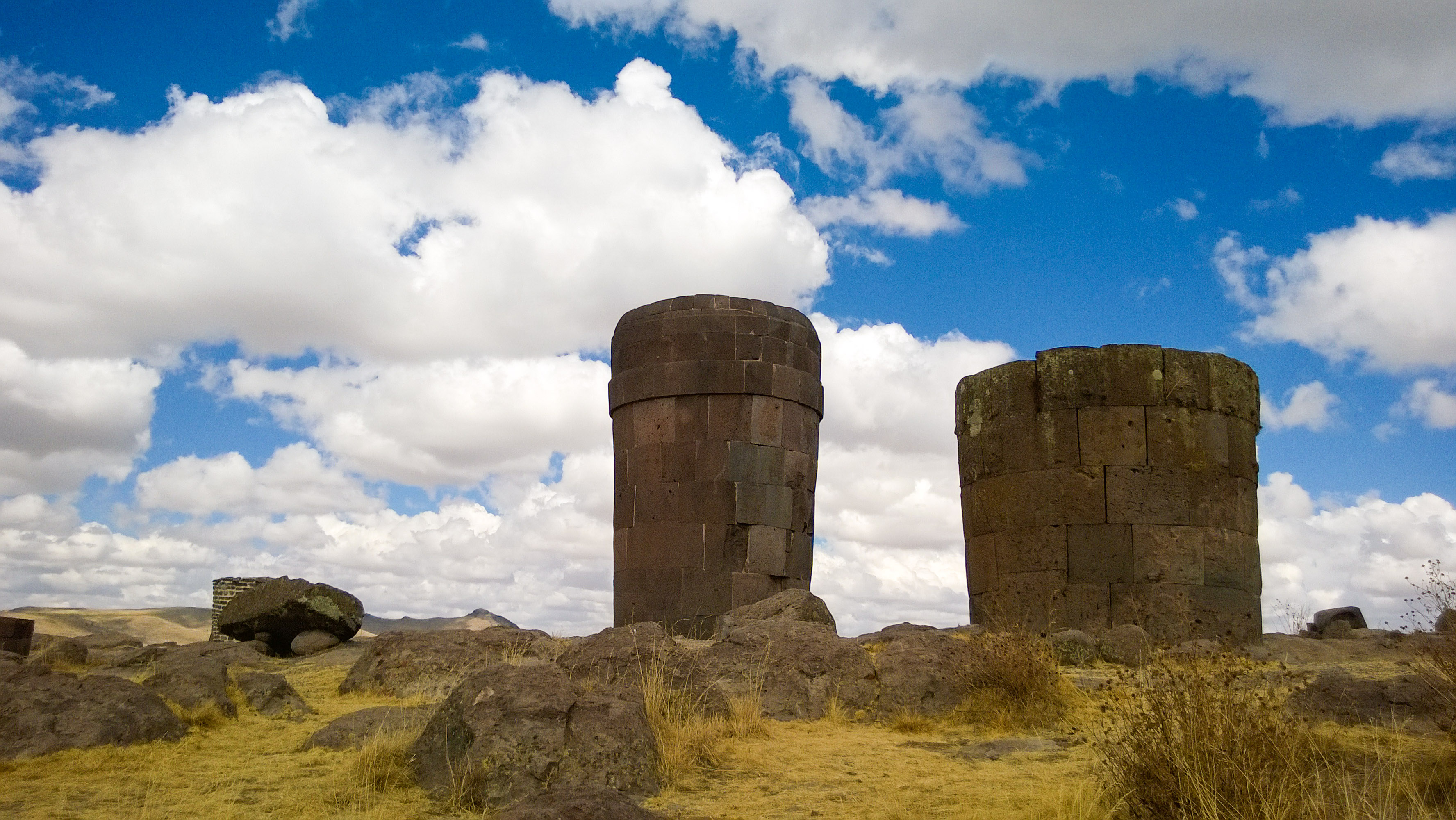 Chullpas Inka in Sillustani, Puno, Perú